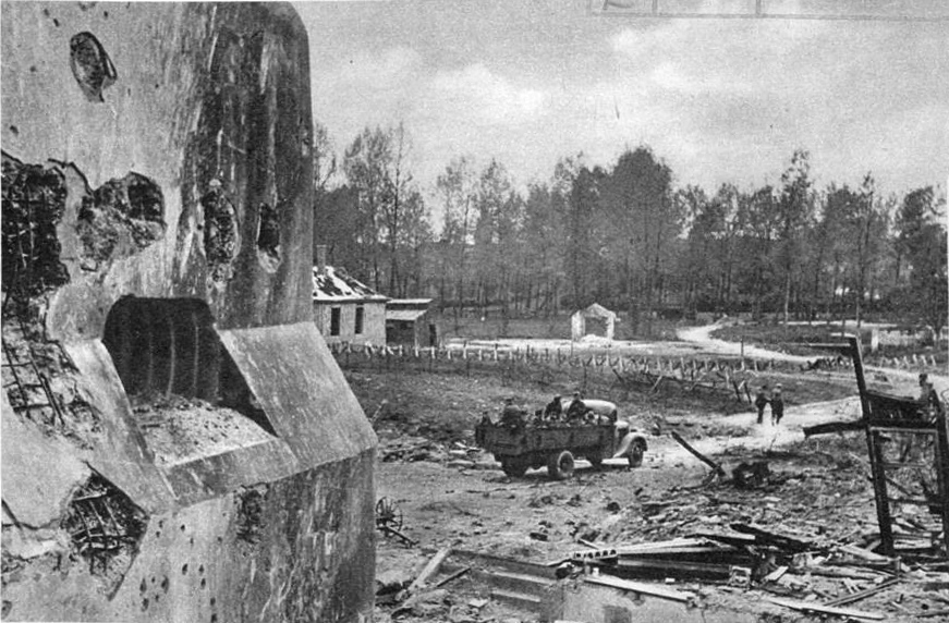 A miliary truck in the field during the battle of Fort Eben-Emael.